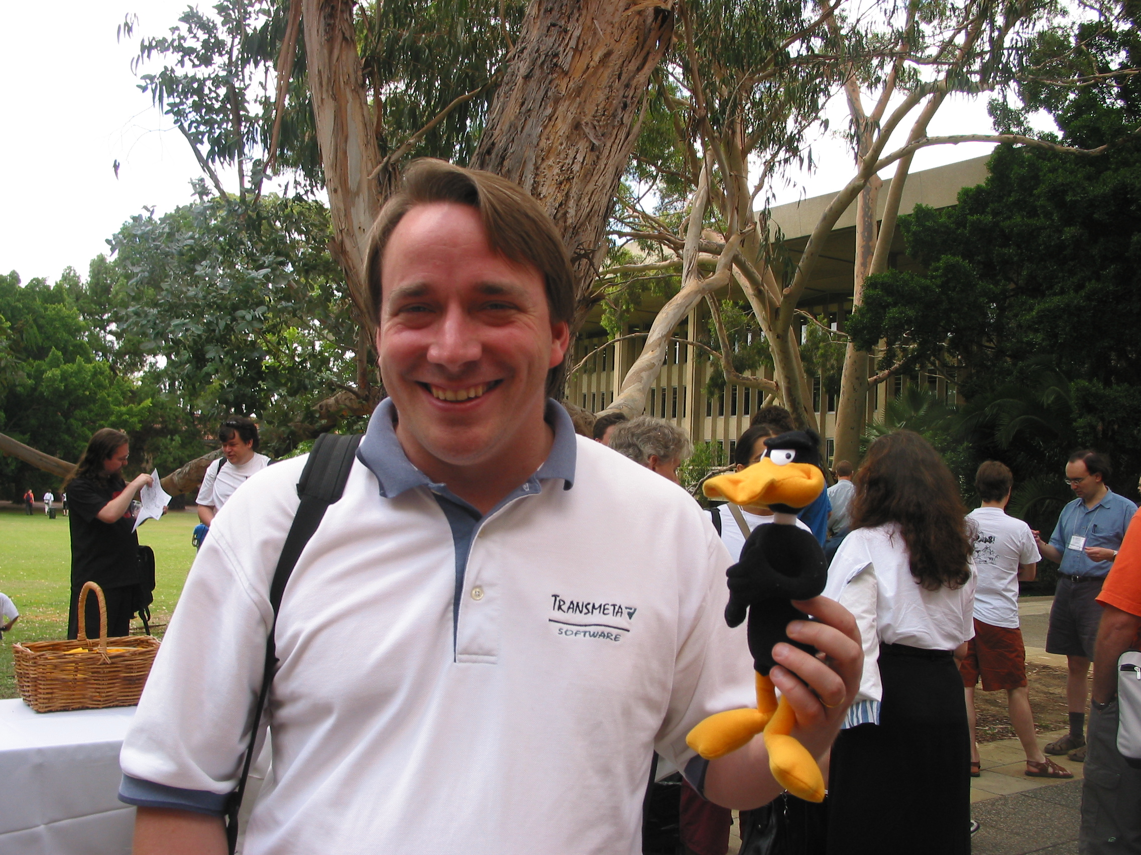 Linus Torvalds came to Perth for the 2003 Australian Linux conference, and was a great sport. He remarked that it was a nice change from penguins